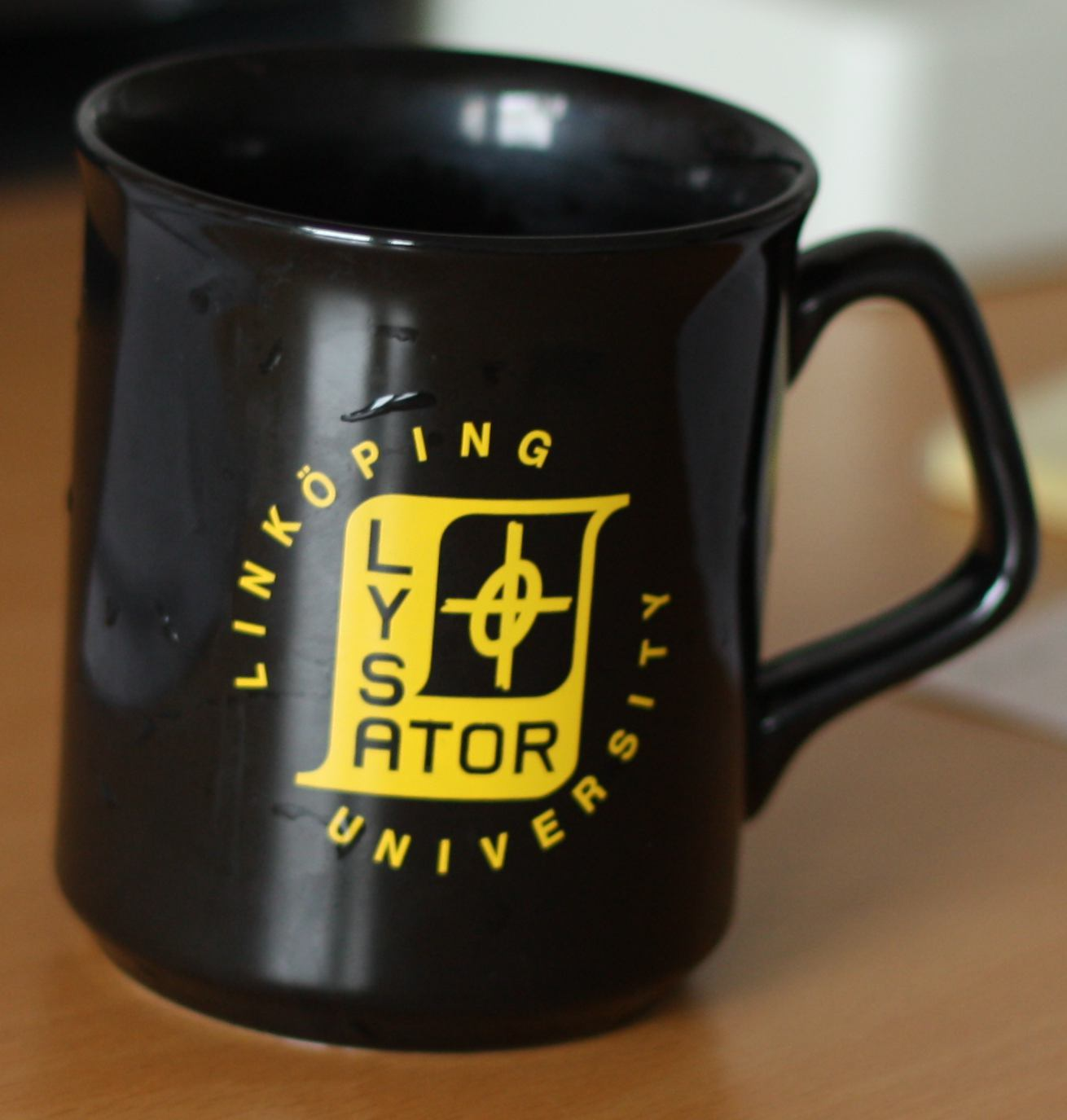 Lysator mug